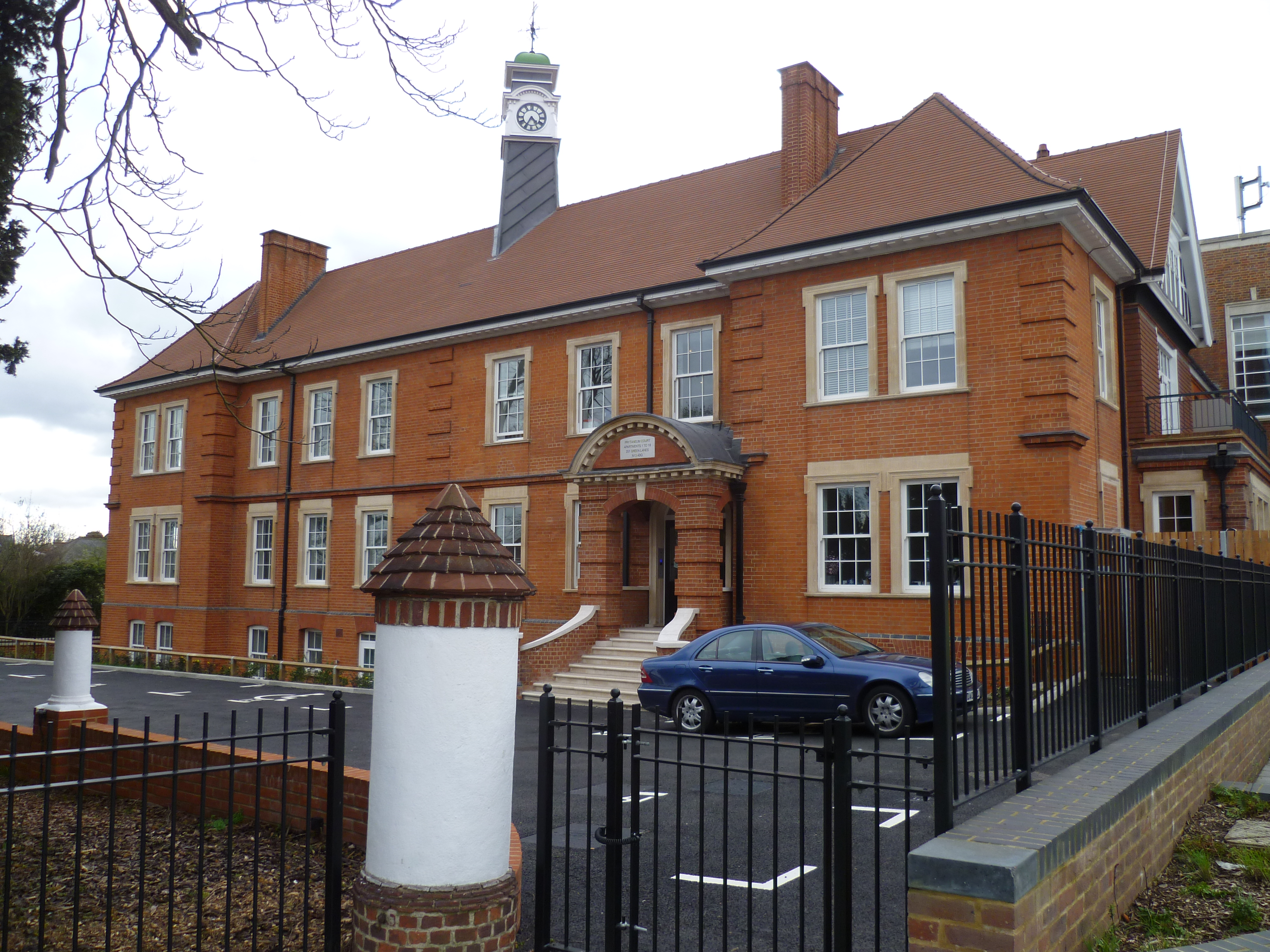 London